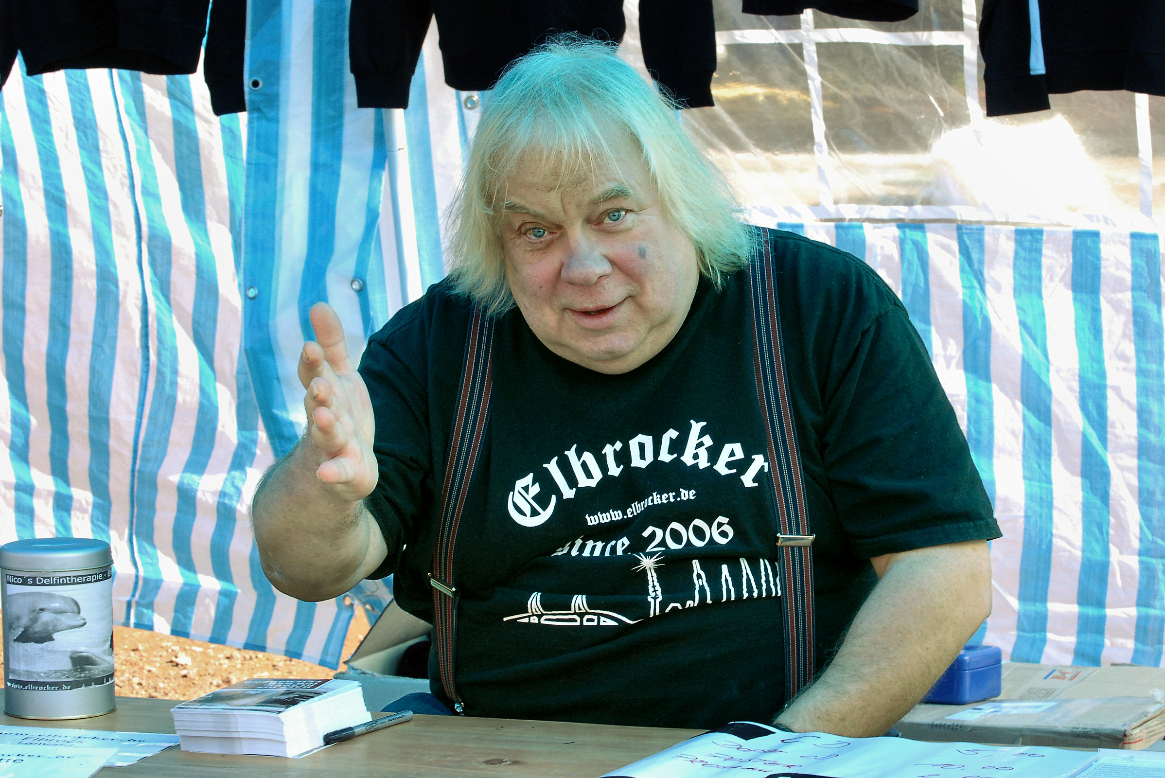 German musician and actor "Schildkröte" aka. "Mr. Piggy" (Franz Jarnach), picture taken at the first "Elbrockbowl" 03. Oct. 2007, 3rd Version